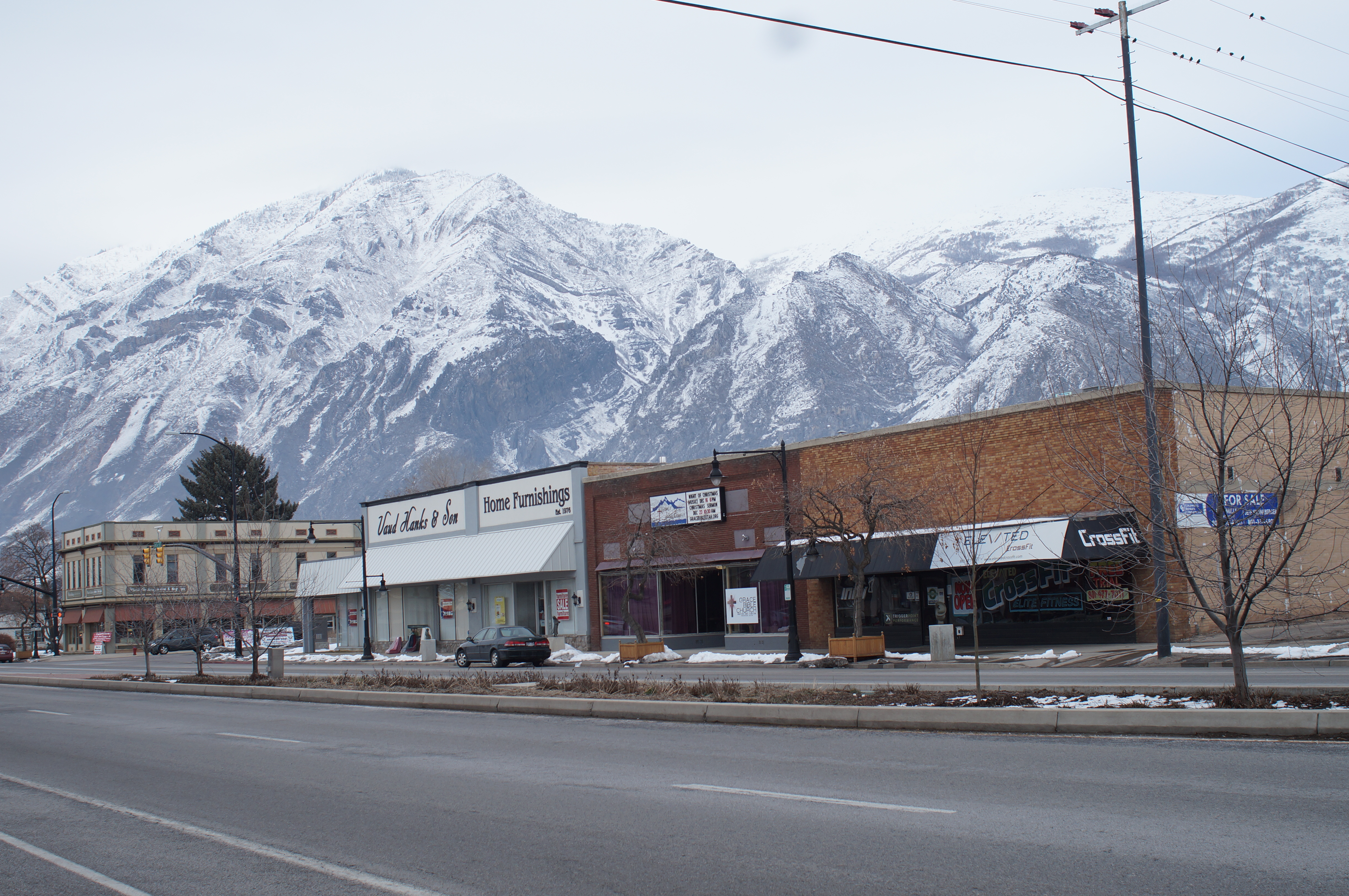 This Springville Utah Main Street scene has the snowy Wasatch Mountains as background